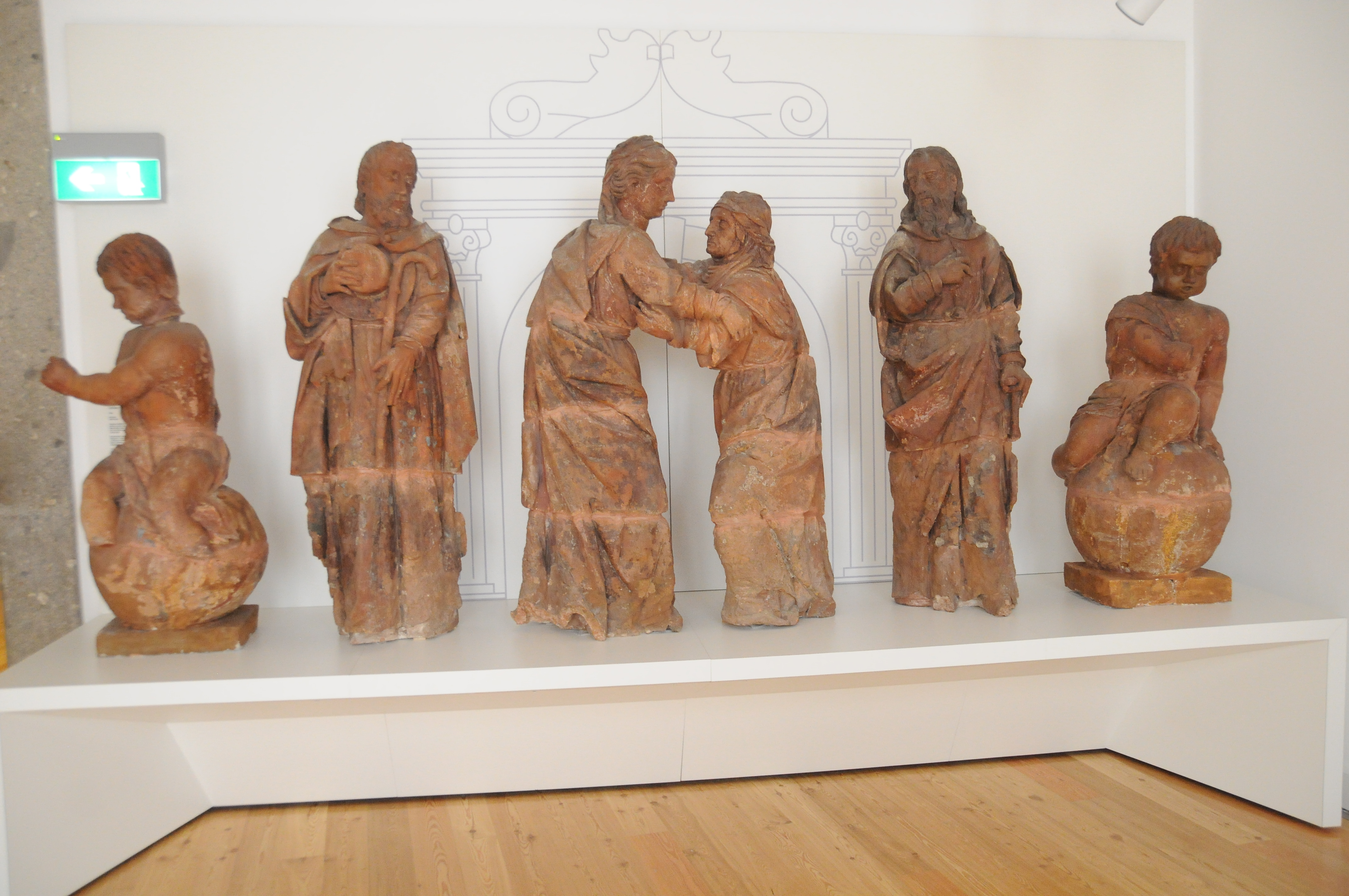 Visitation statues in Interior of Raio Palace, Braga, Portugal.